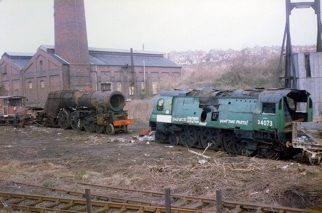 Woodham's Scrapyard, Barry Many of the steam locomotives seen today on preserved railways came from this scrapyard, some in much worse condition than these two. Nearest the camera is Bulleid Battle of Britain Light Pacific No.34073 249 Squadron the other is Bulleid Merchant Navy Pacific No.35009 Shaw Savill both of these locomotives were saved but await restoration.